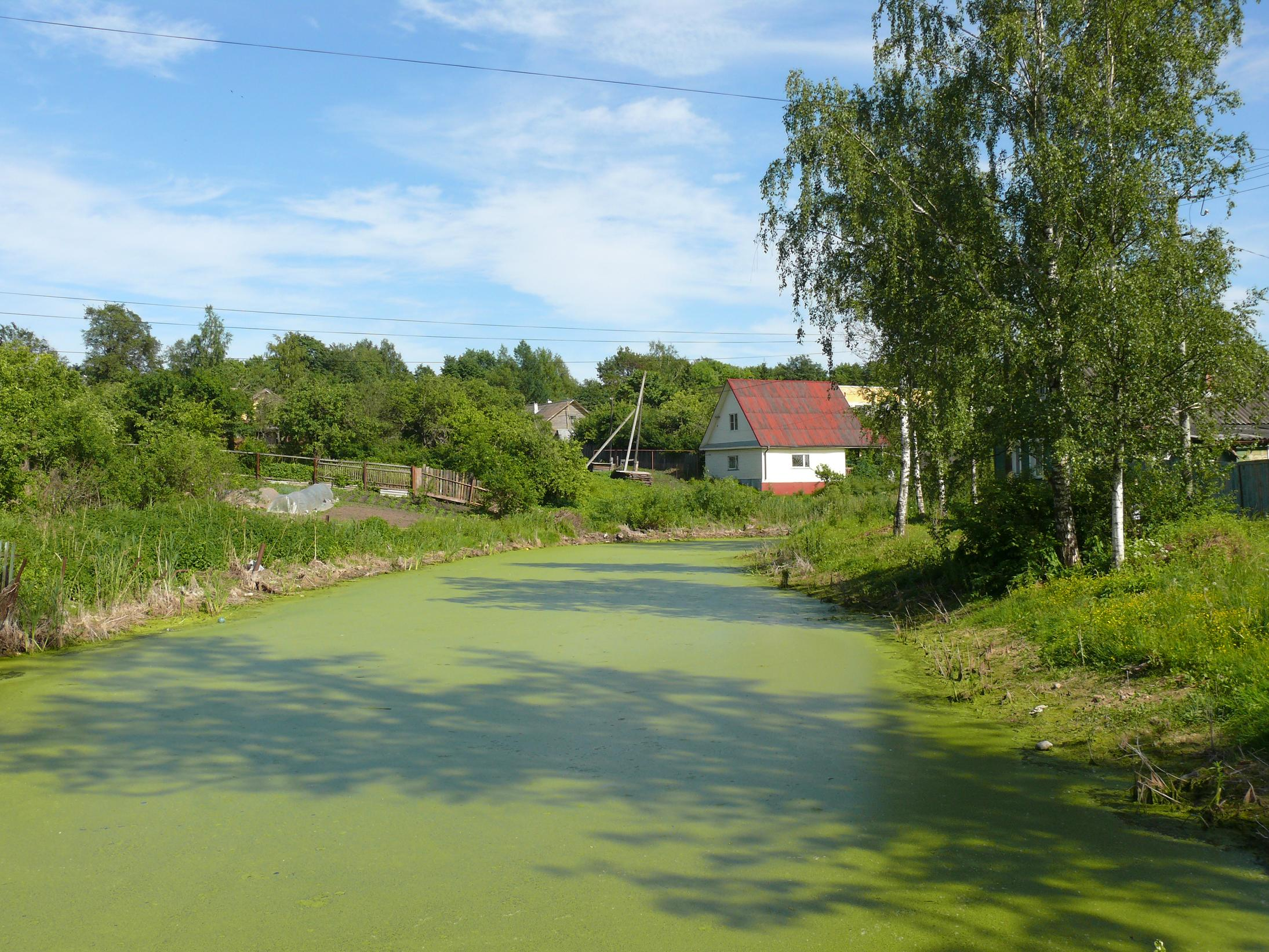 Malashka river in Staraya Russa, Novgorod oblast, Russia